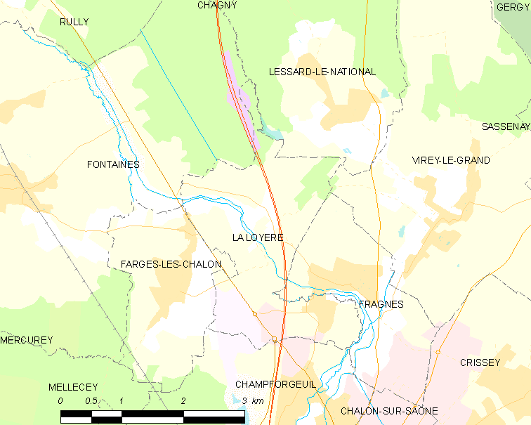 Map of French municipality